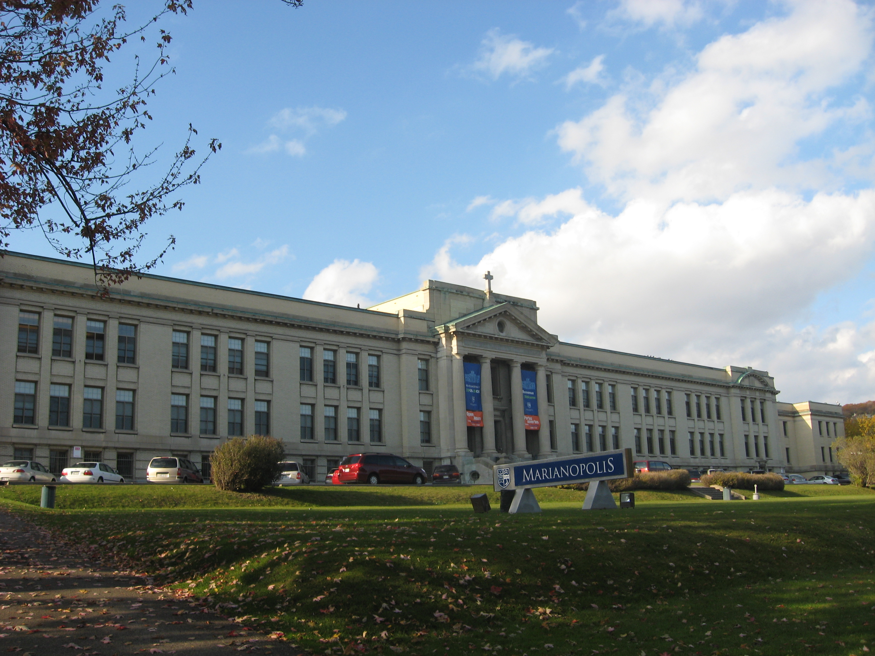 Marianopolis College, Montreal, Quebec